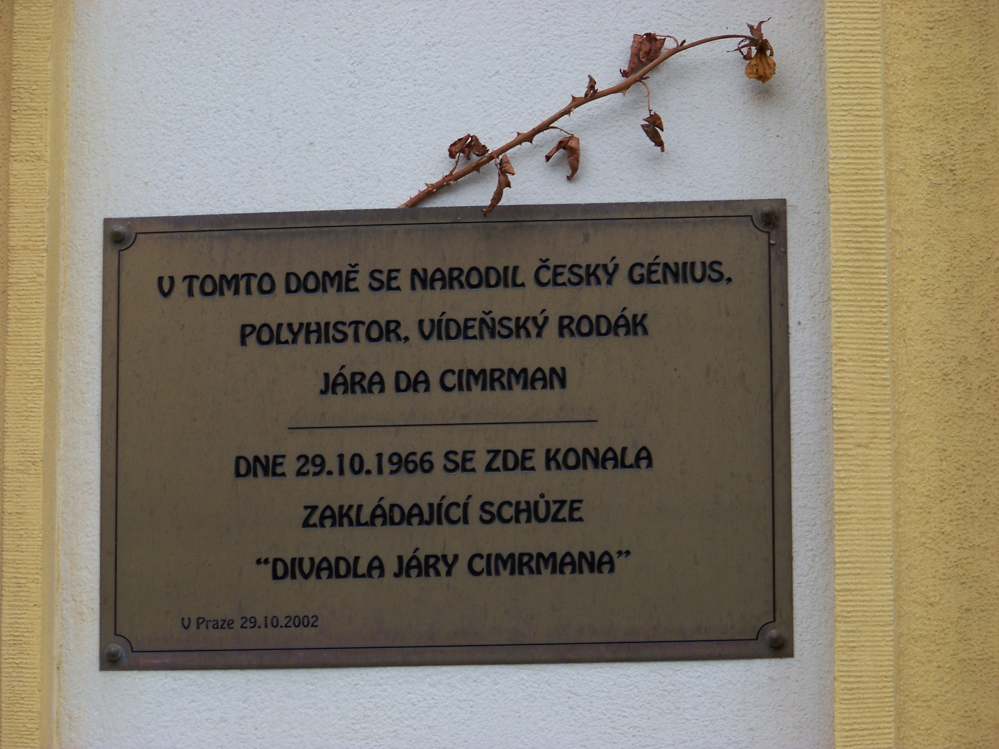 Prague-Vinohrady, the Czech Republic. Dykova 1084/14, a plaque to Jára da Cimrman and Theatre of Jára Cimrman.